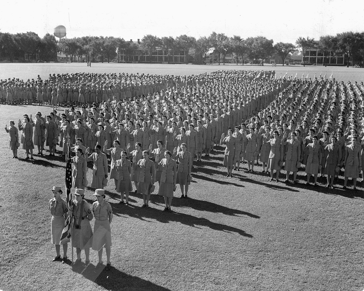 From the back of the photograph: WAAC officers at First WAC Training Center, Fort Des Moines, Iowa, take the oath of office that makes them commissioned officers of the Army of the United States. Handwritten note: Black officer - Charity Adams; near flag - M.L. Milligan; 1st row right - E. (Eleanore) C. Sullivan